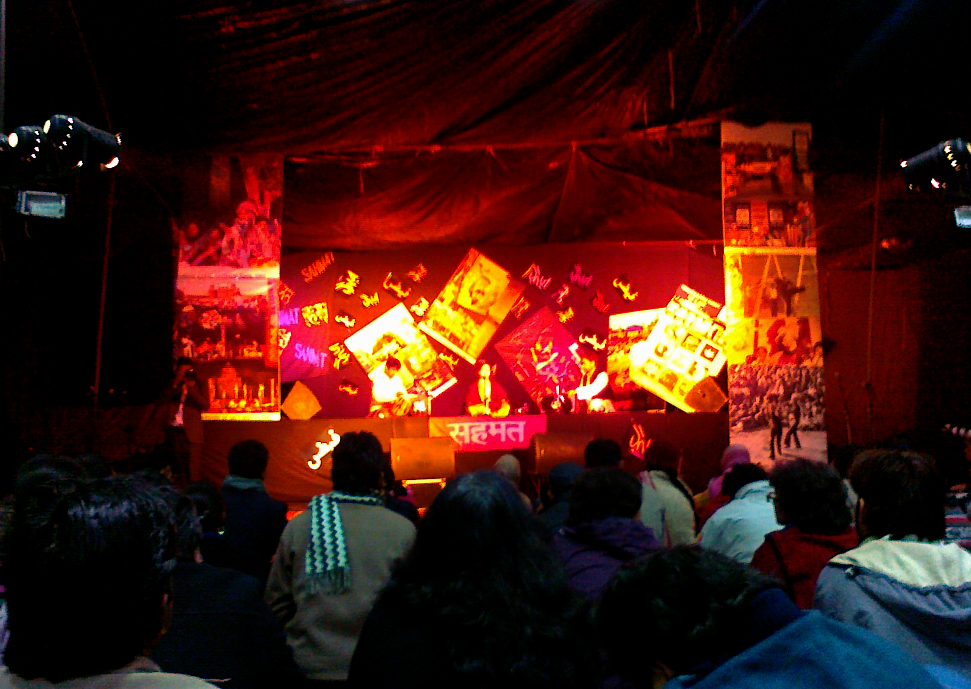 In This Picture classical musician “Vidya Shah” is performing in the middle on an special programme of SAHMAT, Delhi. She was singing nazms of Progressive Urdu Poet “Faiz Ahmad Faiz”. This picture was taken in Delhi on Ist of January 2011, Vitthalbai Patel House Lawns, during an annual programme organized by "Safdar Hashmi Memorial Trust"(SAHMAT), to commemorate the martyrdom of Safdar Hashmi.